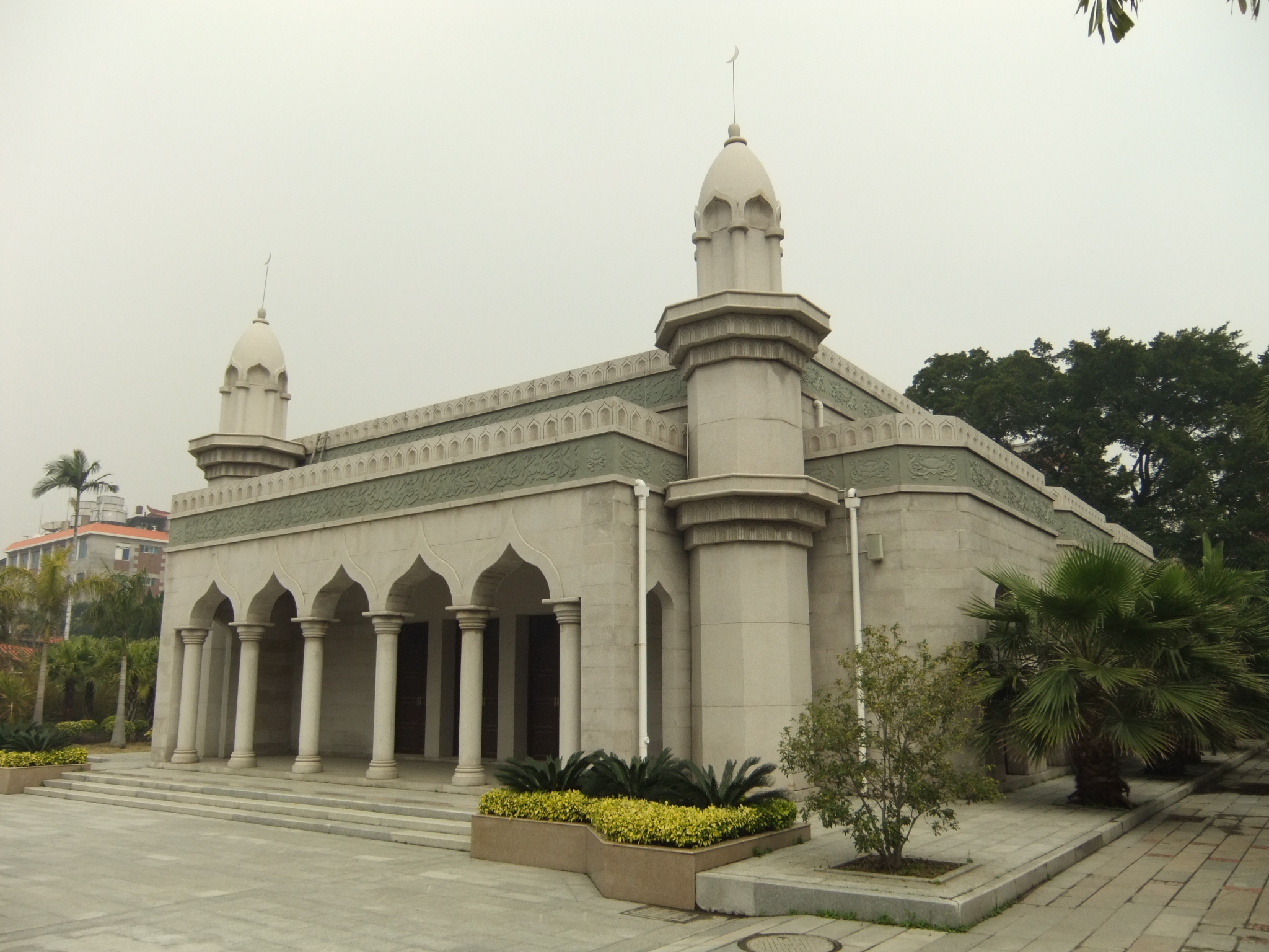 Qingjing Mosque, a.k.a. Ashab Mosque, the main mosque of Quanzhou.